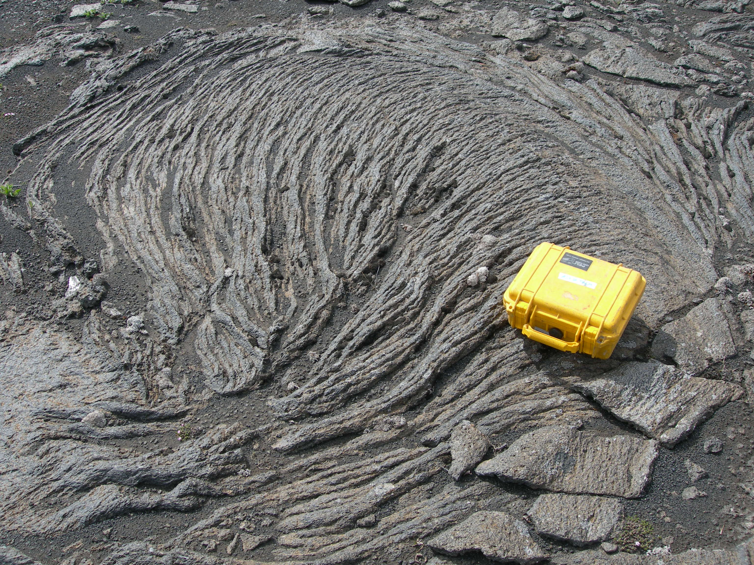 Ropy lava, typical flow structure of basaltic pahoehoe lava, Askja, north Iceland highland.